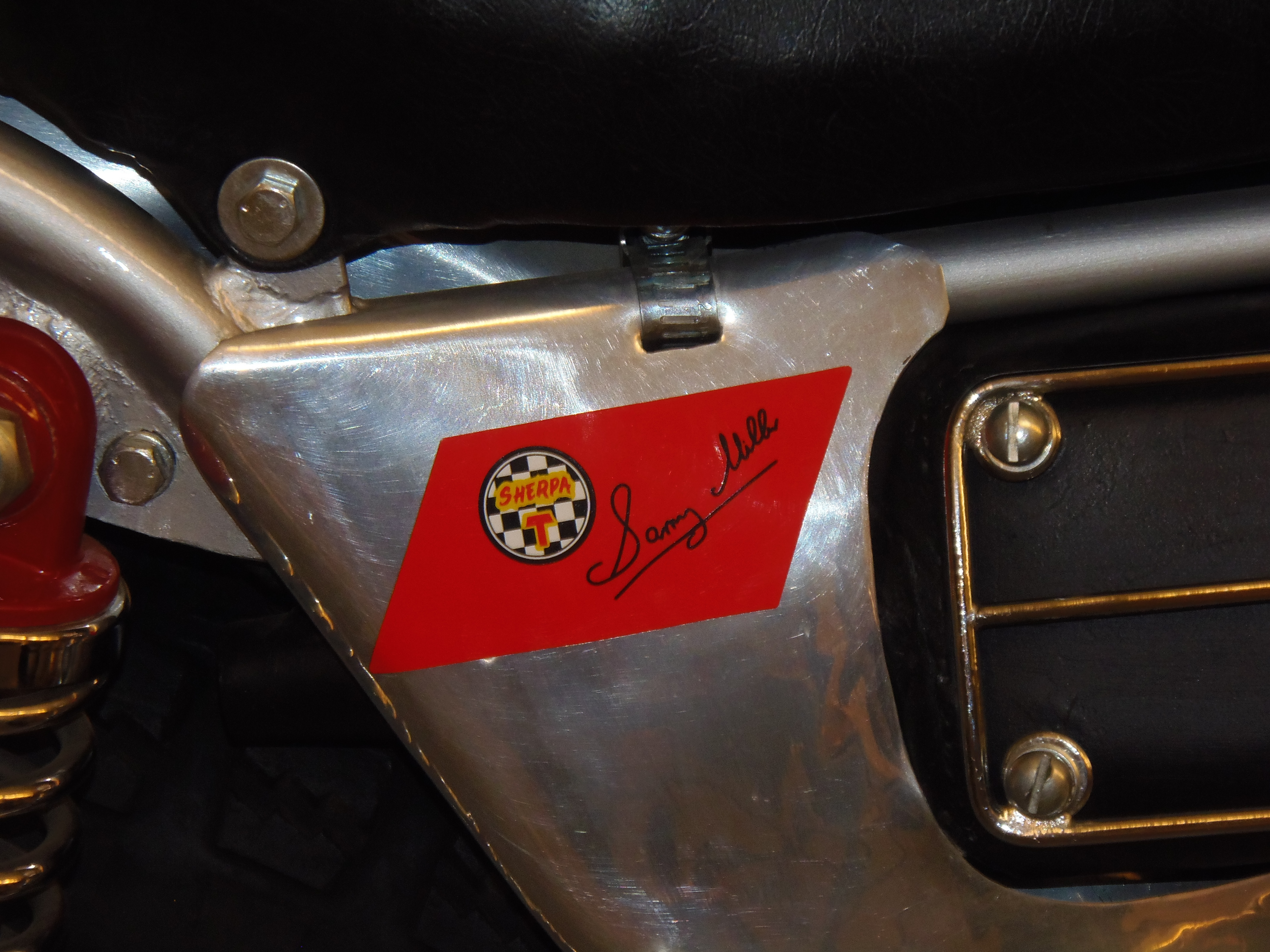 Sammy Miller's signature on a Bultaco Sherpa T Model 10, 250 cc, 1965.